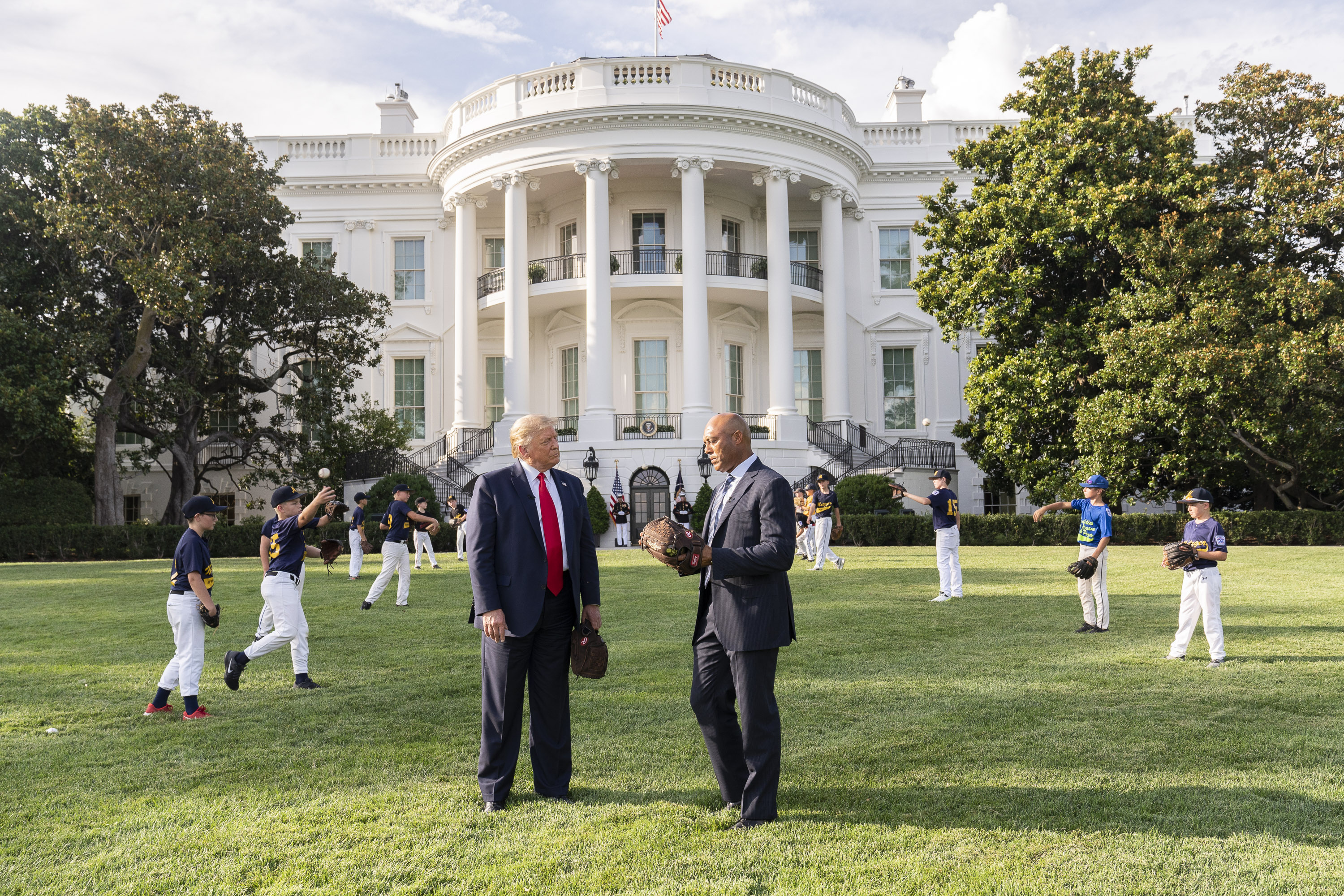 President Donald J. Trump attends the opening day of little league with Mariano Rivera Thursday, July 23, 2020, on the South Lawn of the White House. (Official White House Photo by Shealah Craighead)